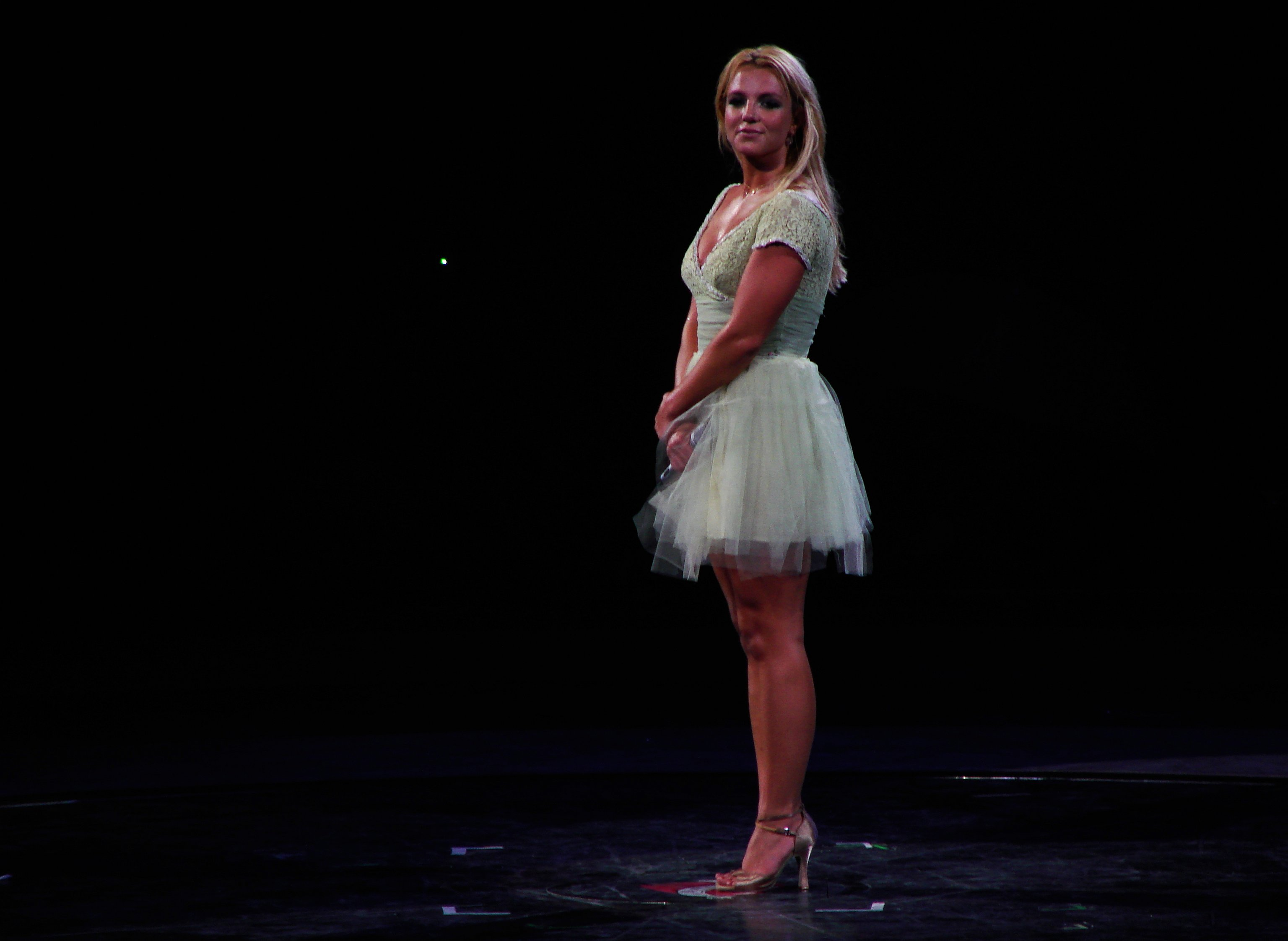 Spears performing in a concert in Miami